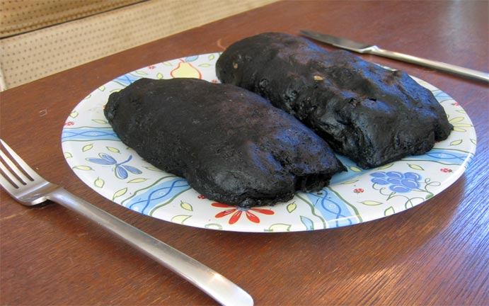 Two freshly cooked loaves of wila (Bryoria fremontii), an arboreal hair lichen that is edible.